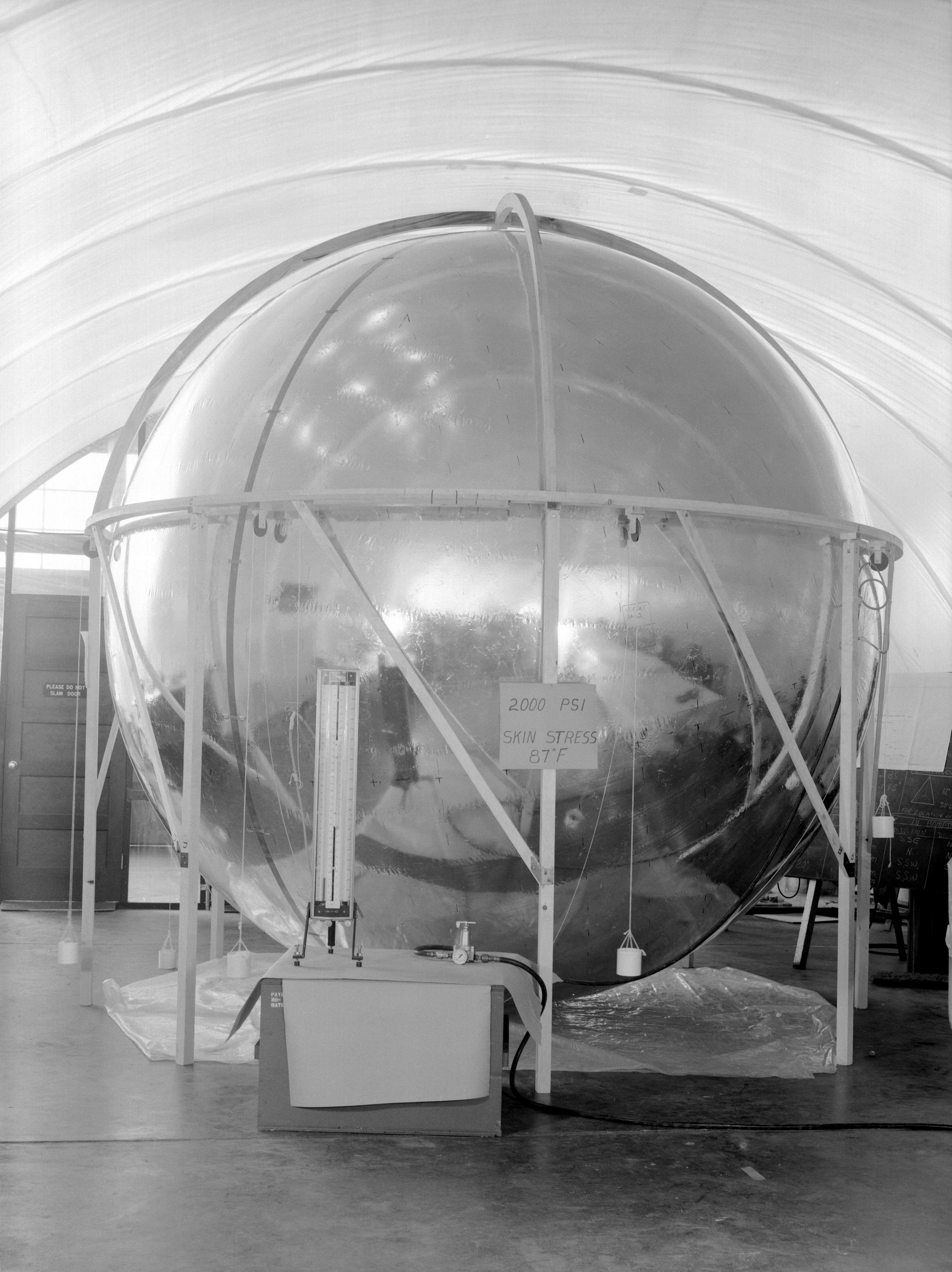 Pictured here is a scale prototype of the Echo satellite undergoing a Skin Stress Test on May 1, 1960. The prototype was 12 feet in diameter, with the size being chosen because that was the ceiling height in the NASA Langley model shop. After an unsuccessful launch attempt for the original Echo I satellite, Echo 1A and the follow-on Echo II were successfully launched. The Echo projects were instrumental in letting the world see that the U.S. was a major force in the space race not very far behind Russia.